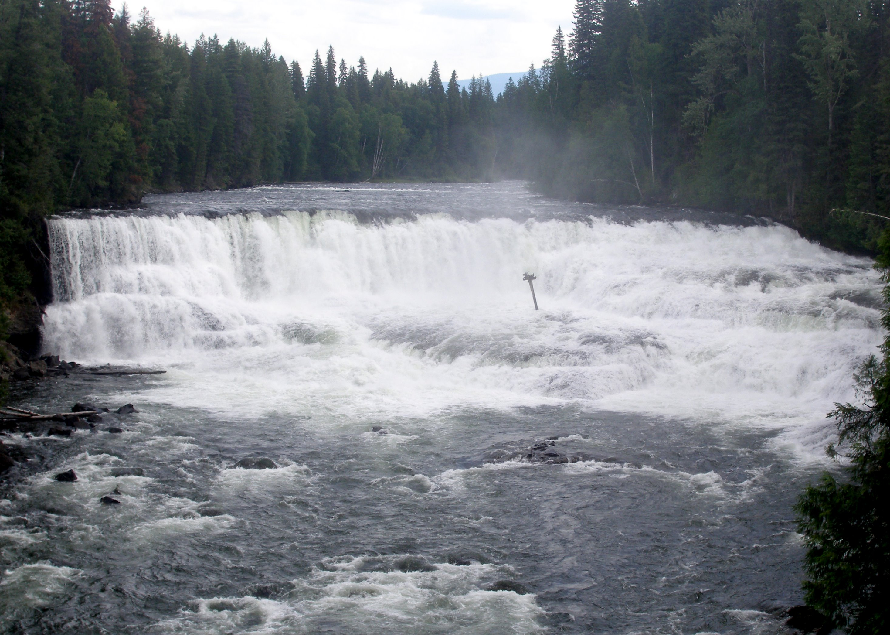 Dawson Falls on the Murtle River, in Wells Gray Provincial Park.